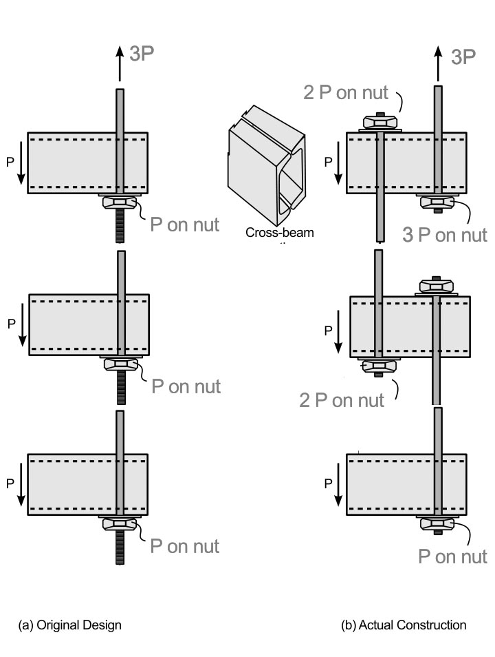 This detail compares the original bolt design with an alternate that was submitted and approved. The loading characteristics of the submitted detail compounds the loads which caused the skywalks to collapse.